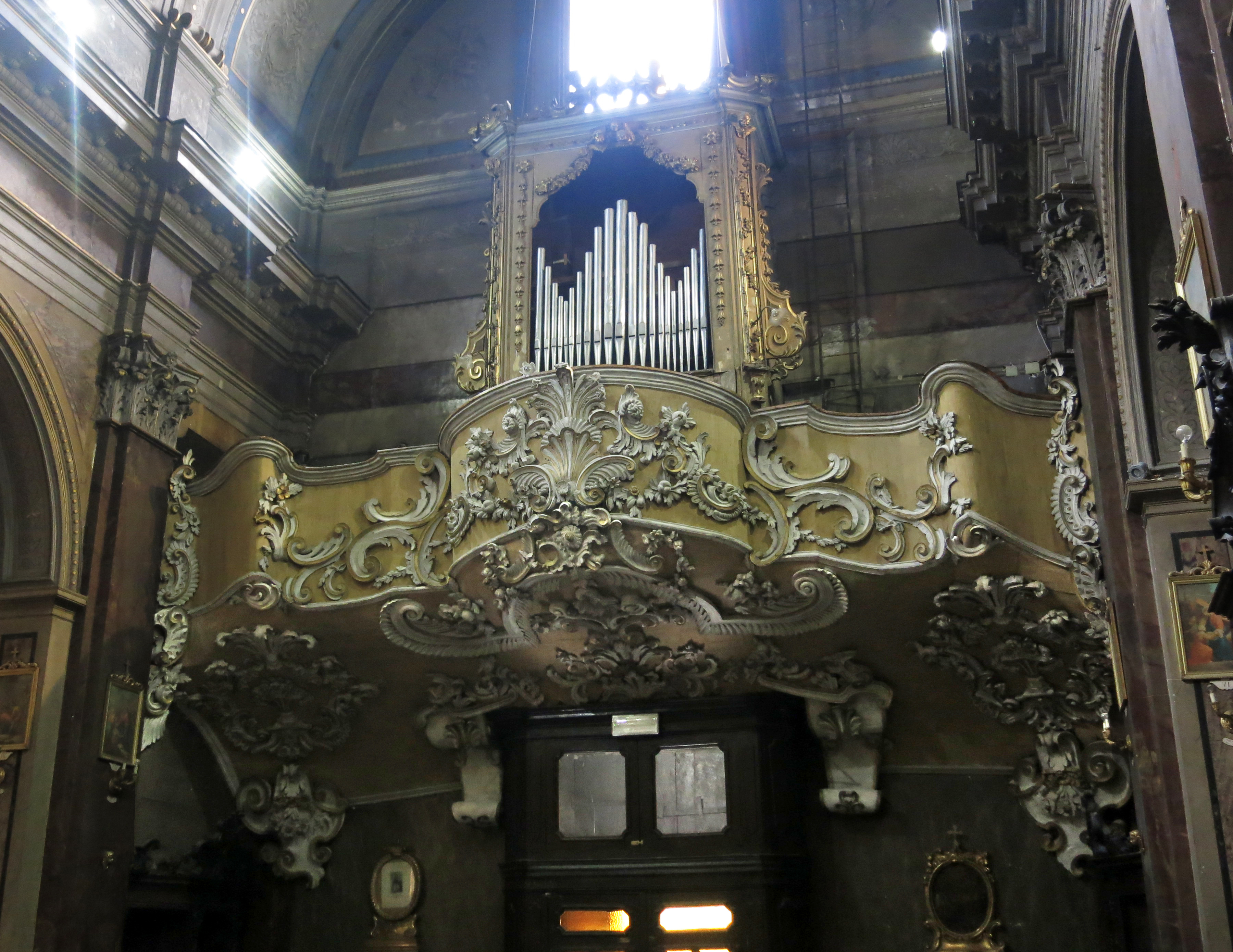 Church of San Rufo - Rieti, Lazio, Italy